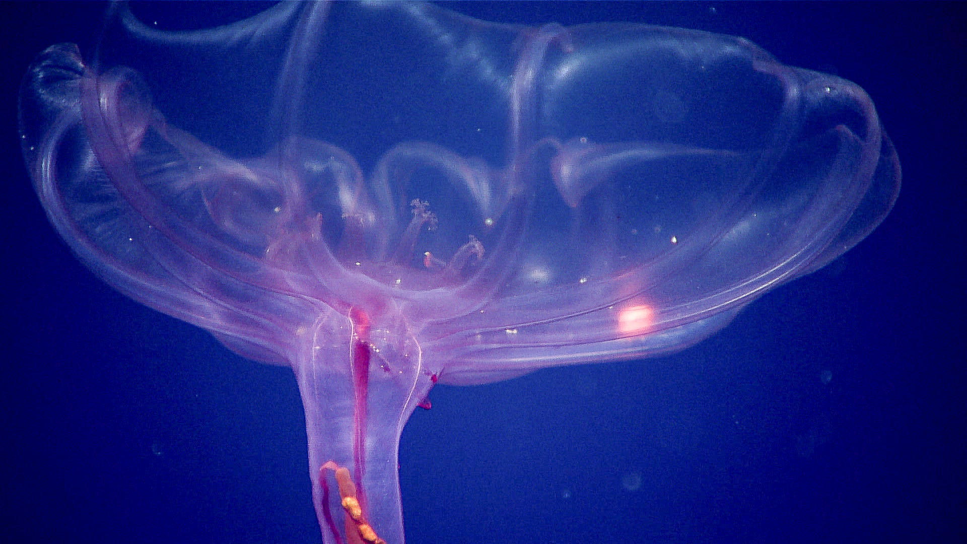 The enigmatic swimming sea cucumber Pelagothuria natatrix seen at 1,400 meters deep during the NOAA Mountains in the Deep Exploring the Central Pacific Basin expedition by Okeanos Explorer, May 2017.